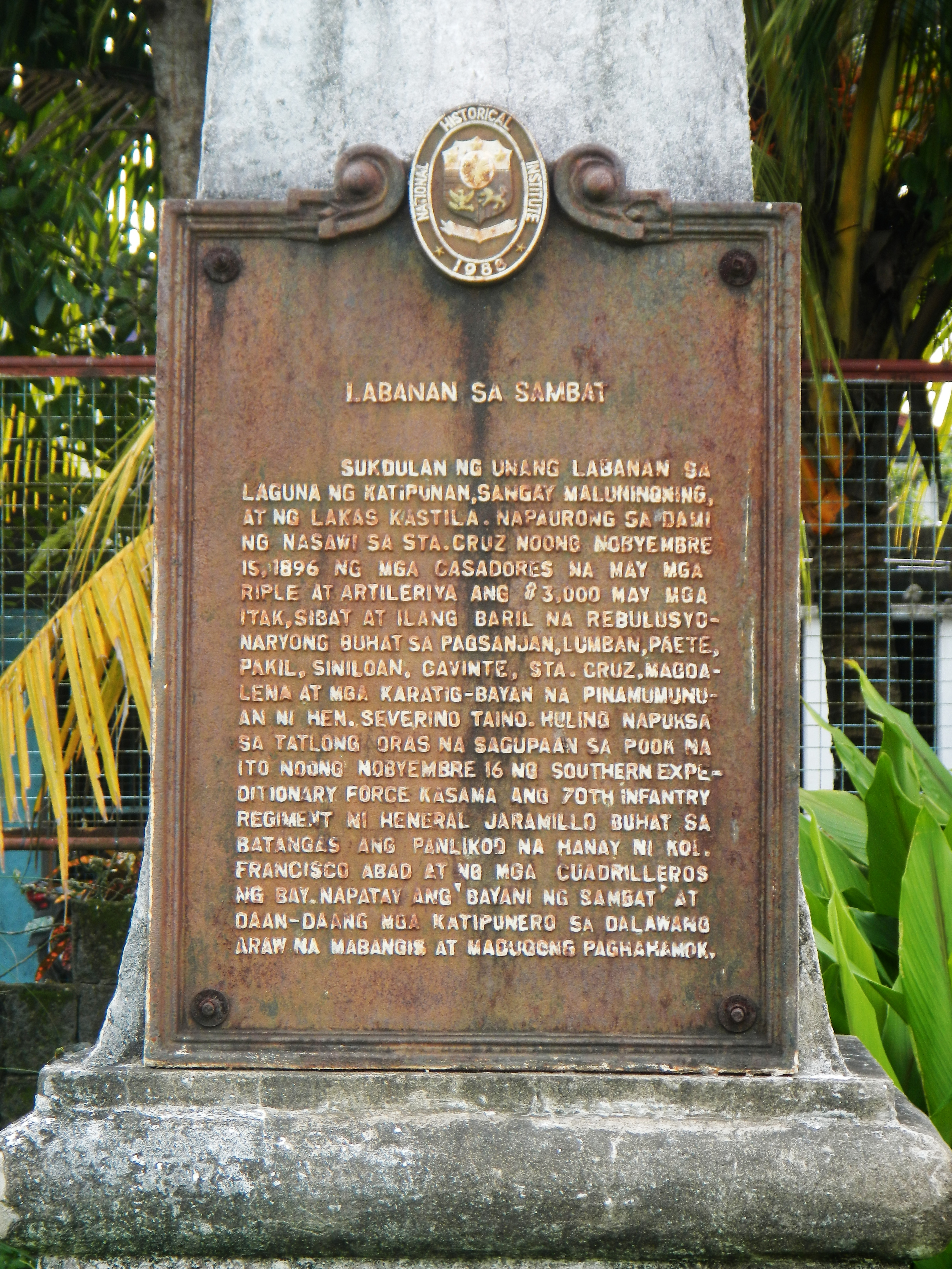 UploadWizard photos --- (general description of landmarks, heritage, culture, comprehensive, photography) of – Labanan sa Sambat [1] - November 15, 1896 -- "Sa pook na ito, sa pagitan ng Pagsanjan at Santa Cruz, naganap ang isang madugong labanan sa pagitan ng mga Katipunero at mga Kastila. Marami ang namatay at nasugatan. Kabilang sa mga binawian ng buhay si Francisco Abad, ang pangalawang pangulo ni Severino Taino ng Pagsanjan.[2] [3]; this battle site, is beside the Pagsanjan Public Marke[4] National Hwy, Pagsanjan Photo taken in Biñan, Pagsanjan, Philippines 14° 15' 57.17" N 121° 26' 25.07" E. See also: Battle of Pagsanjan[5] & Battle of Santa Cruz (1899)[6]